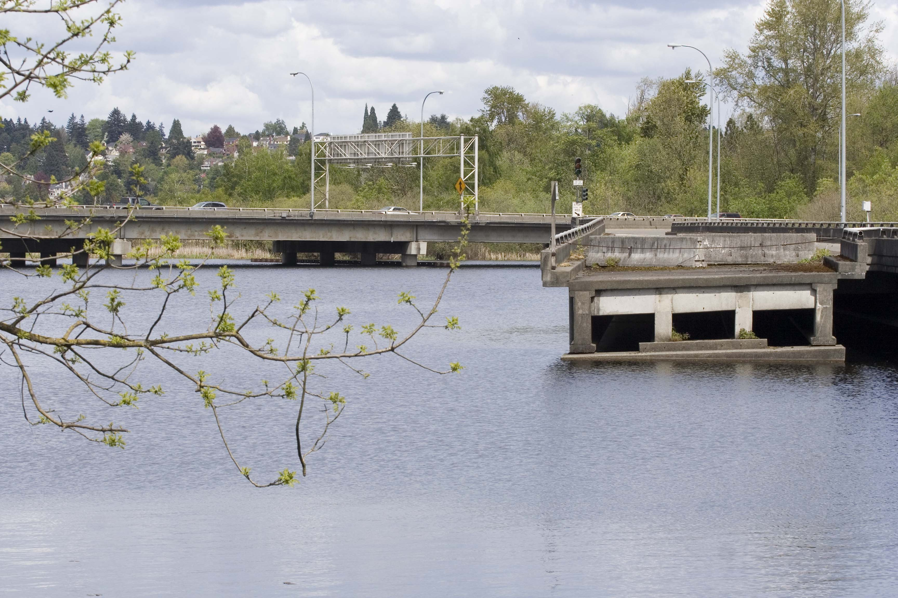 Ghost ramp of State Route 520 in Seattle, Washington. This is in the Washington Park Arboretum. The ramp was intended to connect to the R.H. Thomson Freeway, which was never built. The houses in the distance are in Seattle's Laurelhurst neighborhood.